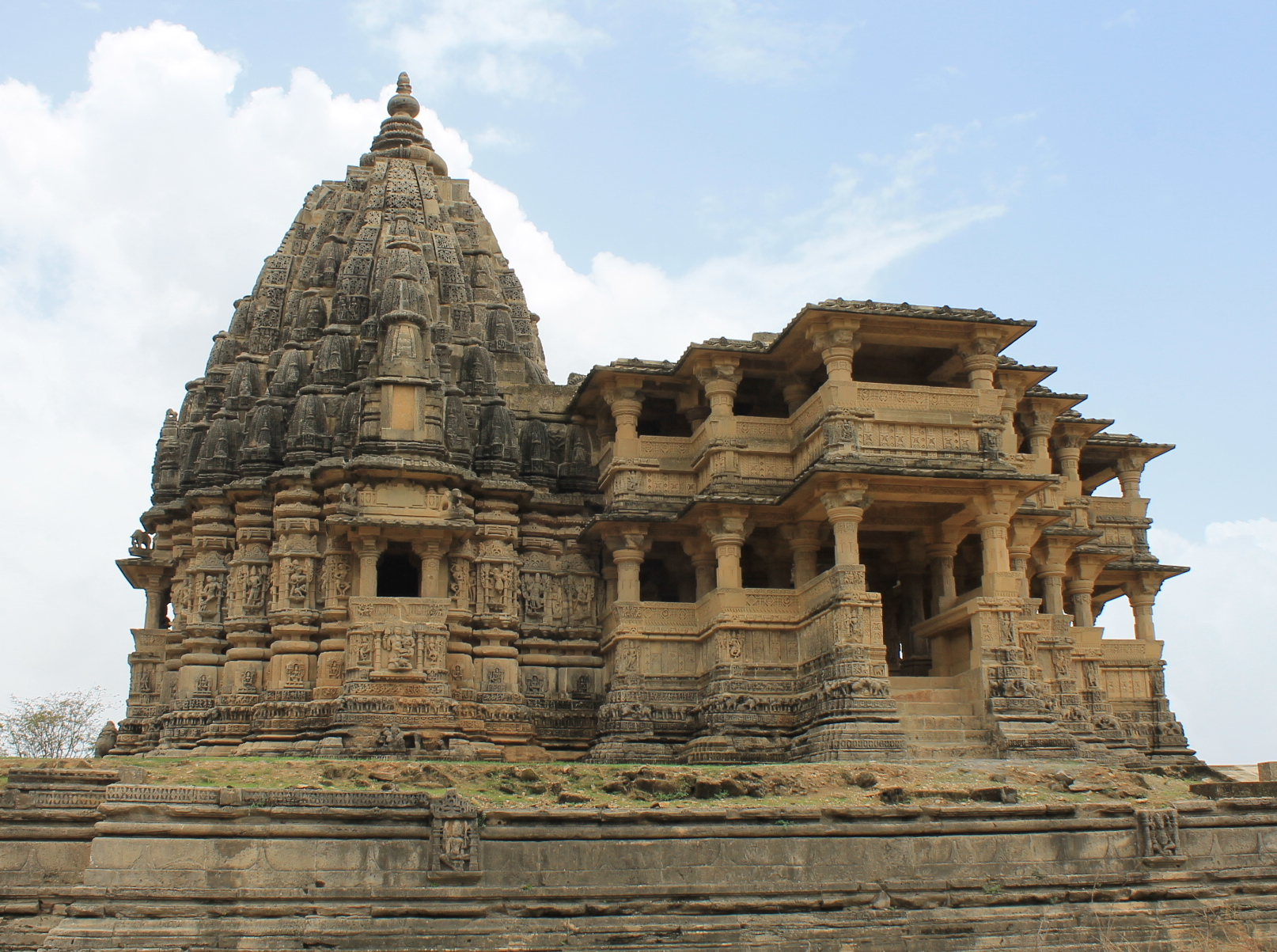 Navlakha Temple Side view of navlakha temple